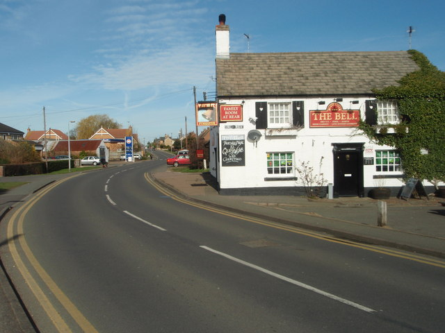 Green End Road, Sawtry The Bell public house and the village petrol station feature here.